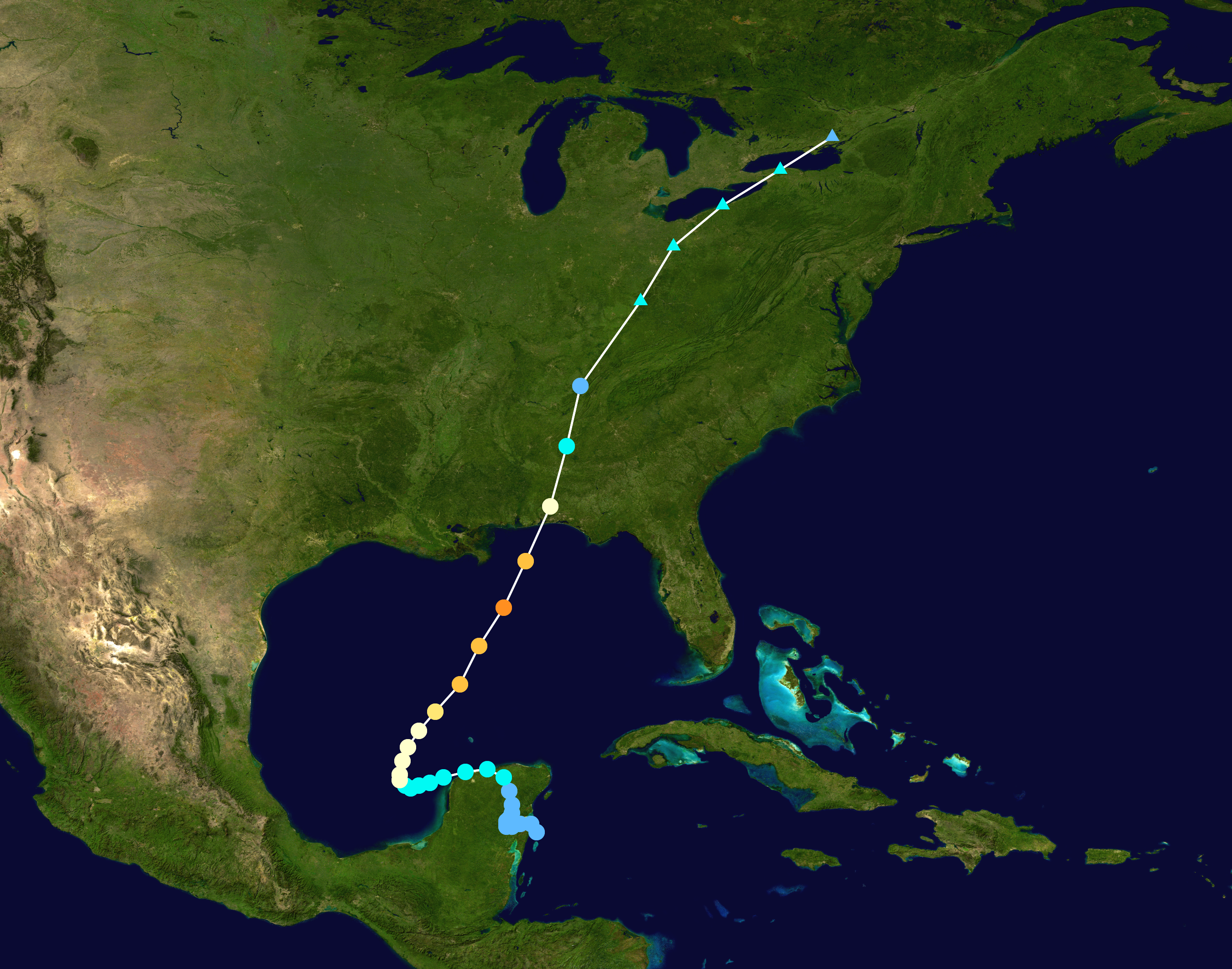 Track map of Hurricane Opal of the 1995 Atlantic hurricane season. The points show the location of the storm at 6-hour intervals. The colour represents the storm's maximum sustained wind speeds as classified in the Saffir–Simpson scale (see below), and the shape of the data points represent the nature of the storm, according to the legend below. Saffir–Simpson scale Tropical depression≤38 mph≤62 km/h Category 3111–129 mph178–208 km/h Tropical storm39–73 mph63–118 km/h Category 4130–156 mph209–251 km/h Category 174–95 mph119–153 km/h Category 5≥157 mph≥252 km/h Category 296–110 mph154–177 km/h Unknown Storm type Tropical cyclone Subtropical cyclone Extratropical cyclone / Remnant low / Tropical disturbance / Monsoon depression